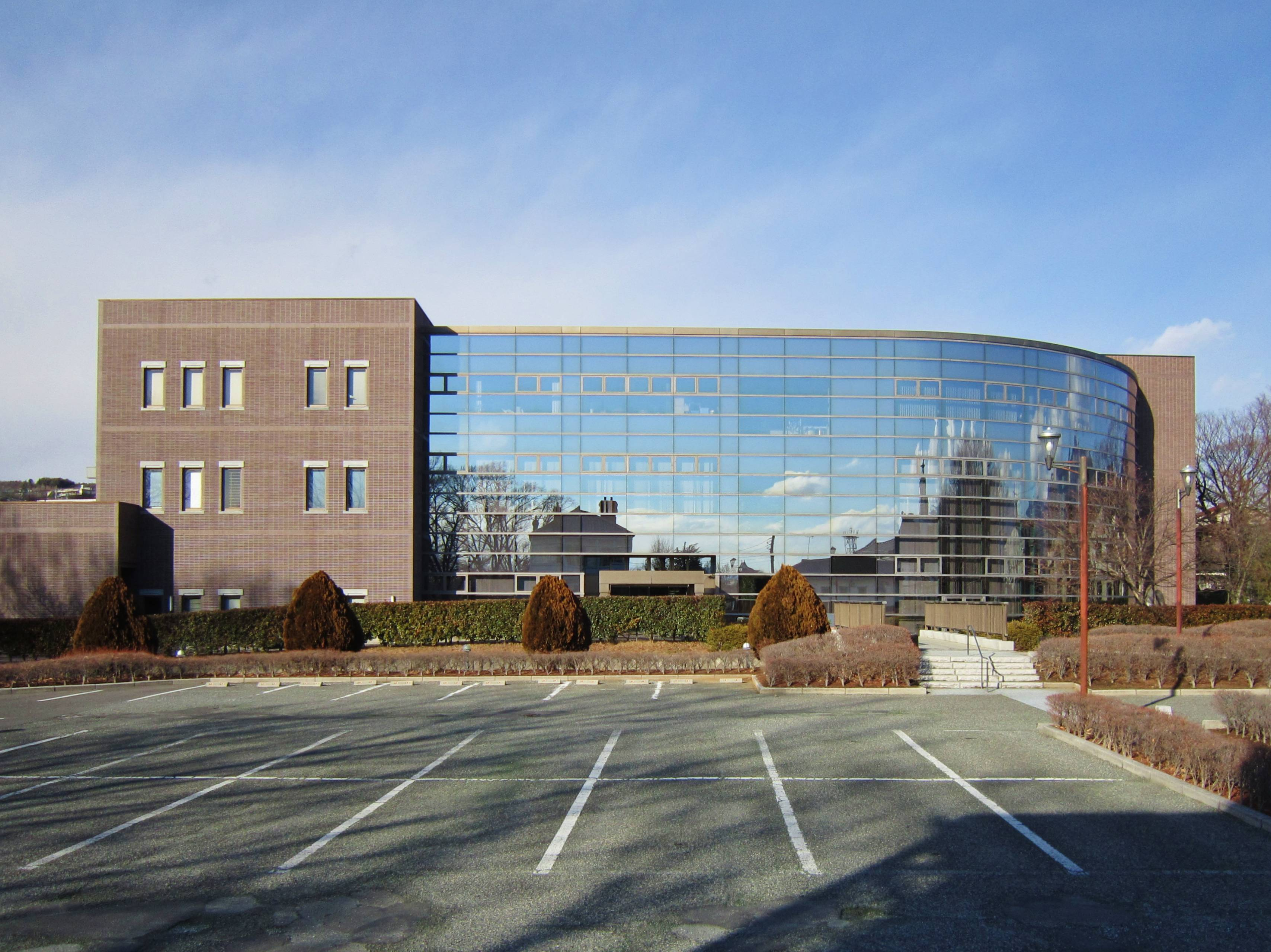 Matsumoto city Chūō library.